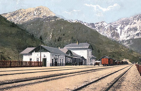 Original building of the Podbrdo train station (in 1927 it was replaced by the current one)